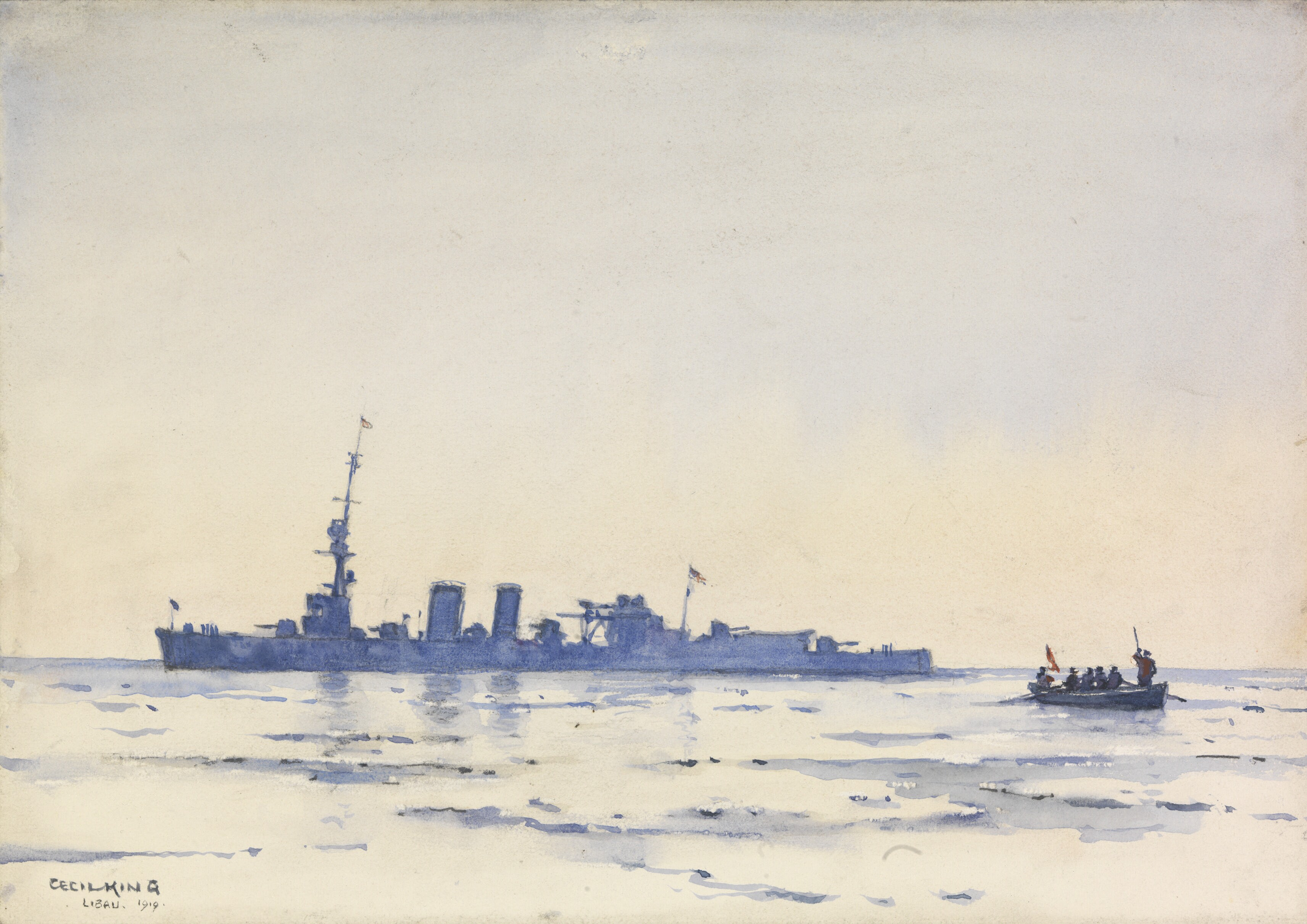 HMS Caledon in the Ice Off Libau painting: a seascape with a port beam silhouette view of a warship; a ship's boat is approaching from the right.